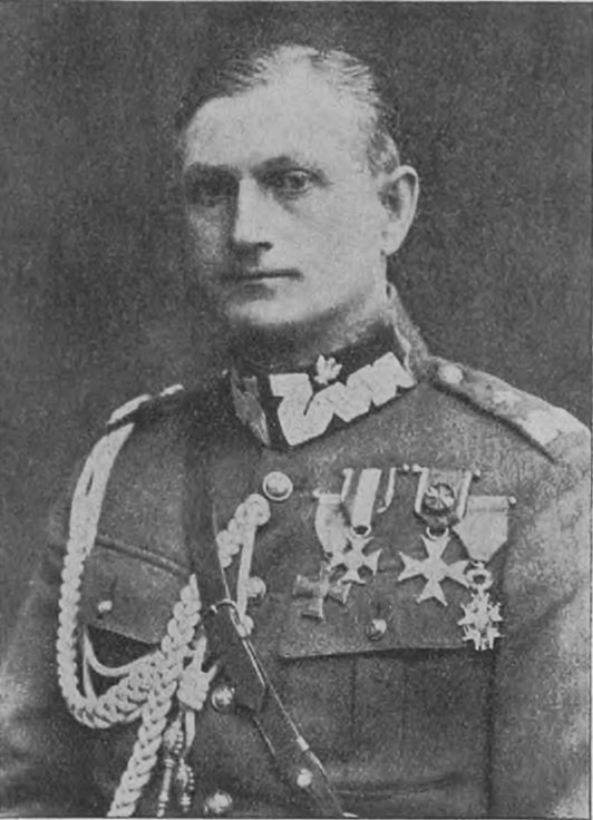 gen. Alexander Łuczyński - commander of the 2nd Infantry Division (1921-1930)